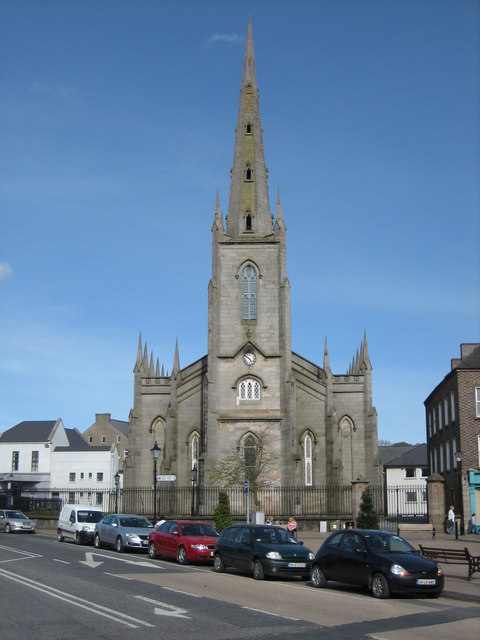 St Patrick's Monaghan. Church of Ireland parish church.